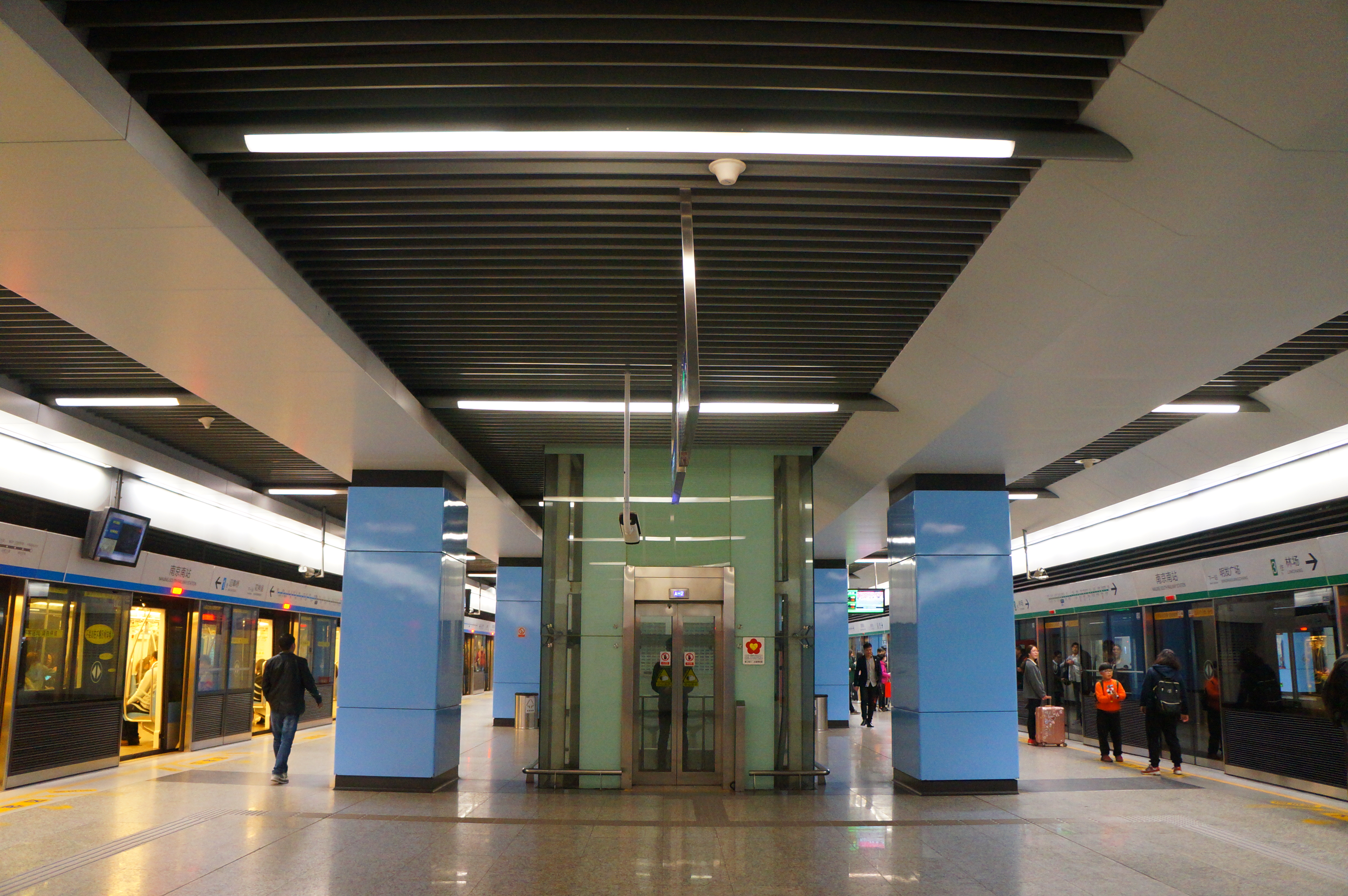 201704 Northbound Platform (L1 to Maigaoqiao, L3 to Linchang) at Nanjing South Railway Station